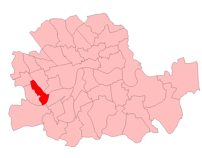 A map of Fulham East constituency within the London County Council area, as it existed from 1950 to 1955.